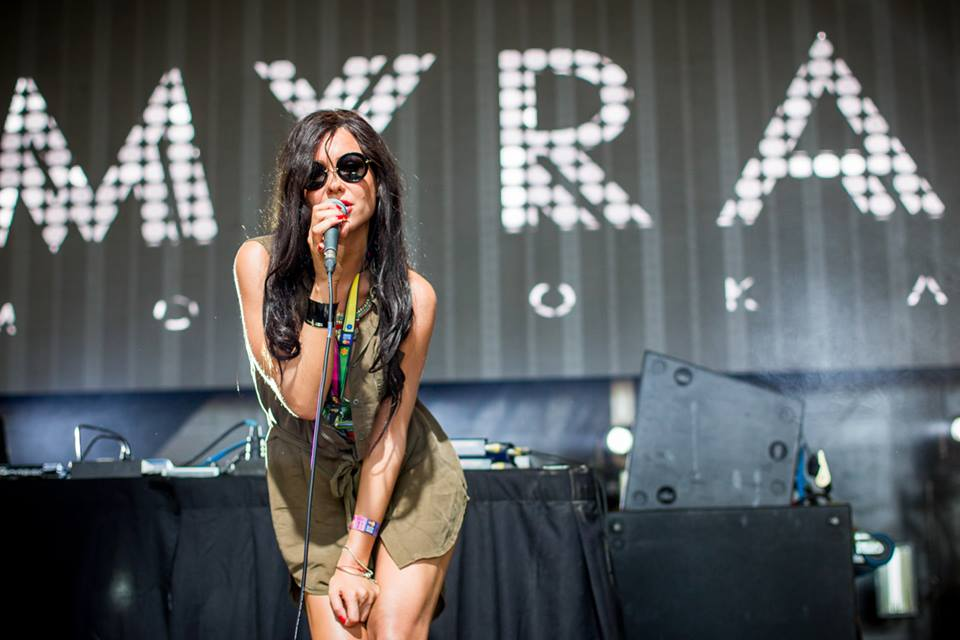 Ablation Sound Festival BP